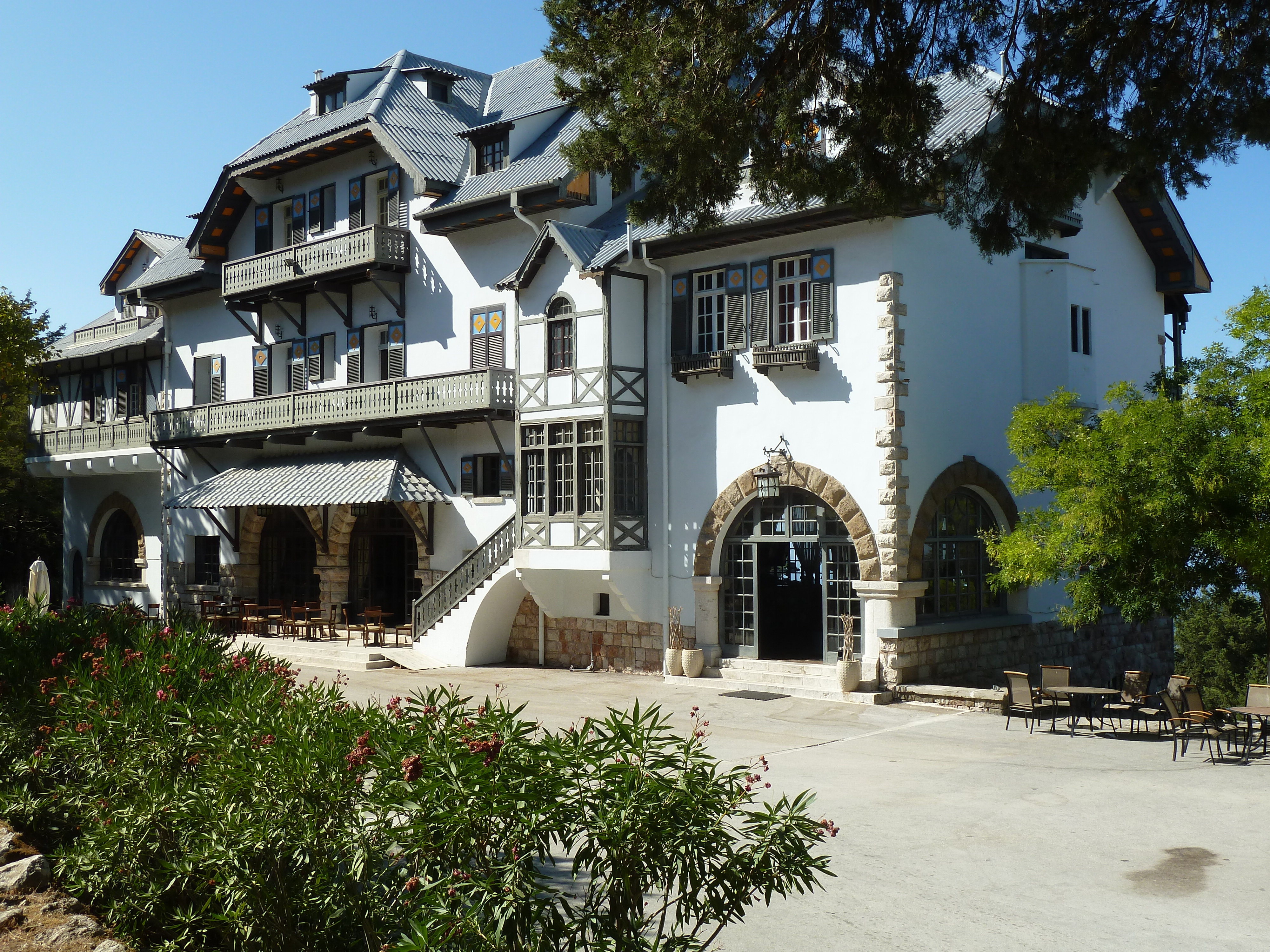 Hotel Elaphos. Hotel "Elaphos and Elaphina" are near the Byzantine monastery named "Prophetes Elias". There are two buildings, a three-storeyed one, "Elaphos" and a two-storeyed one, "Elaphina", both with a basement and a high pitched, wooden roof. The walls are built of stones in a cement frame, while all the window frames and balconies are made of wood. The "Elaphos" hotel was begun by the Italians in 1929 as Albergo del Cervo. In 1930, a ground floor restaurant with a large veranda, a tennis court and a dancing floor were added while later on, the second floor was constructed, replacing the veranda. In 1932 the building was extended with a new wing, called "Elaphina". Thus, the hotel was finally named "Elaphos and Elaphina" after a the deer Dama dama platoni that lives in the woods nearby.